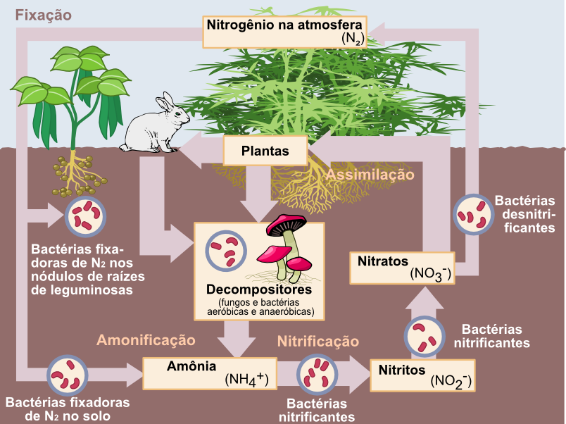 Nitrogen cycle